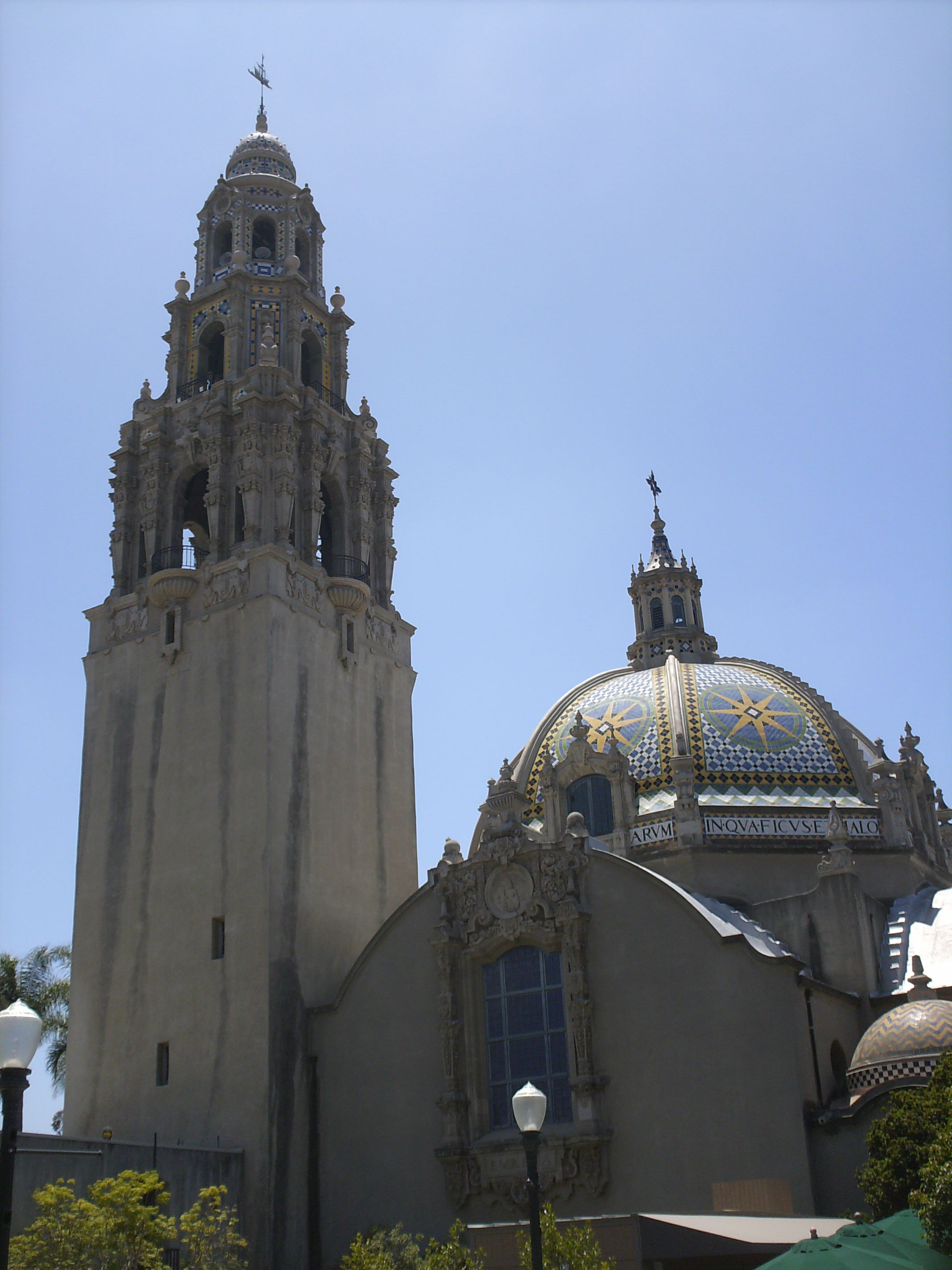 View of the San Diego Museum of Man building, Balboa Park, San Diego, California.